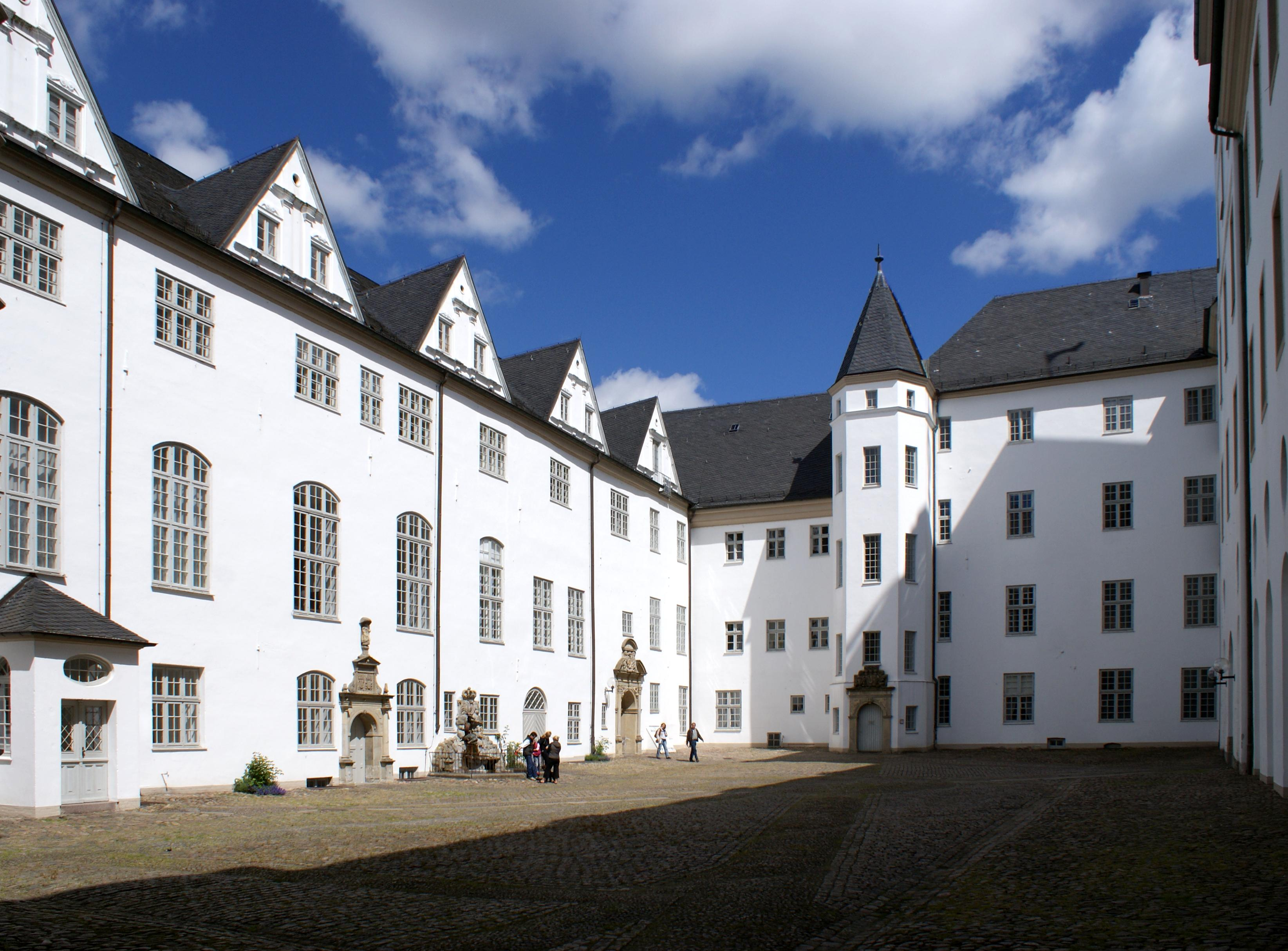 Gottorf Castle, Coutyard, North- and Eastwing